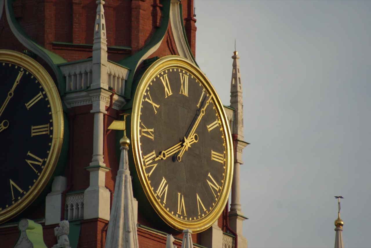 Unlike St Basil's Cathedral, this *is* part of the Kremlin. Ed said that this is the Moscow equivalent of Big Ben's tower.